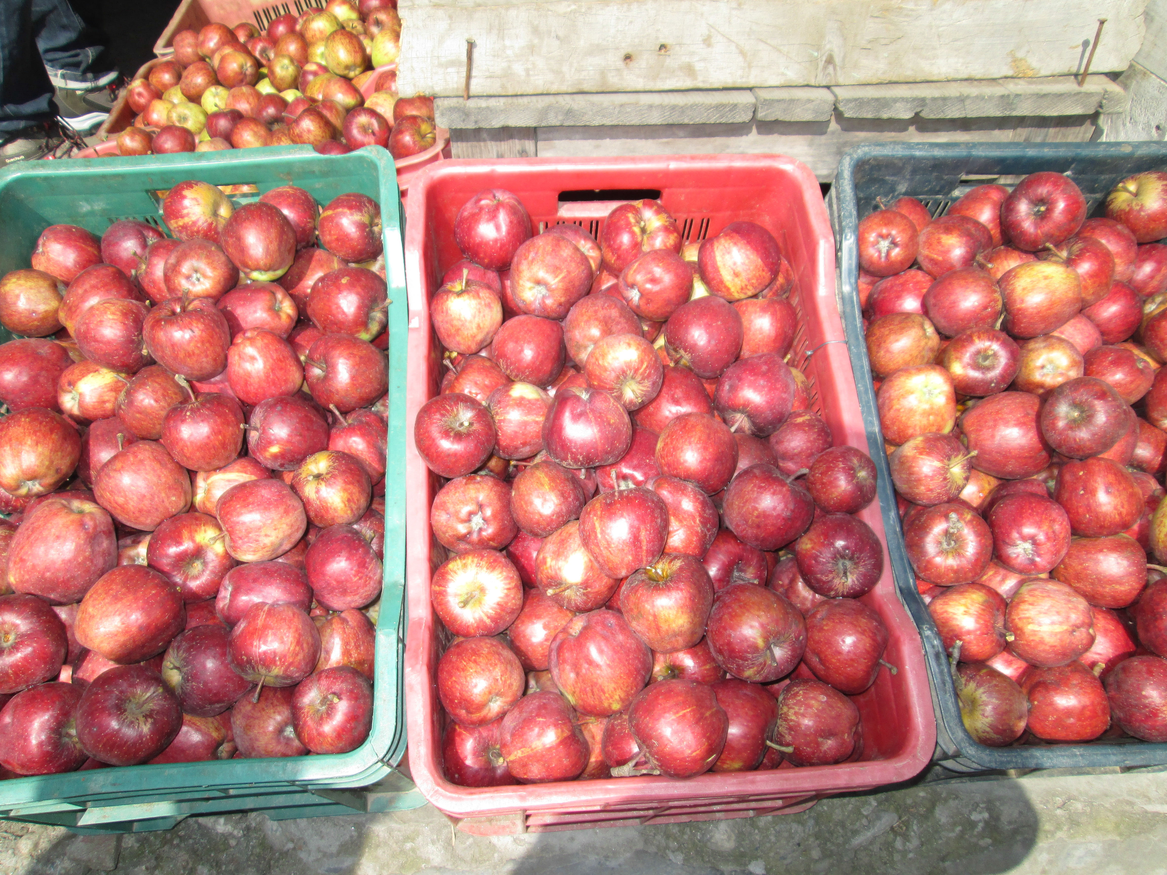 This picture was taken during Kalindi khal trek.